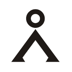 Milky WayGlyph 01 (Symbol for Planet Earth) (As used in the canon of stories relating to the science fiction television franchise, "Stargate" and the related movie)